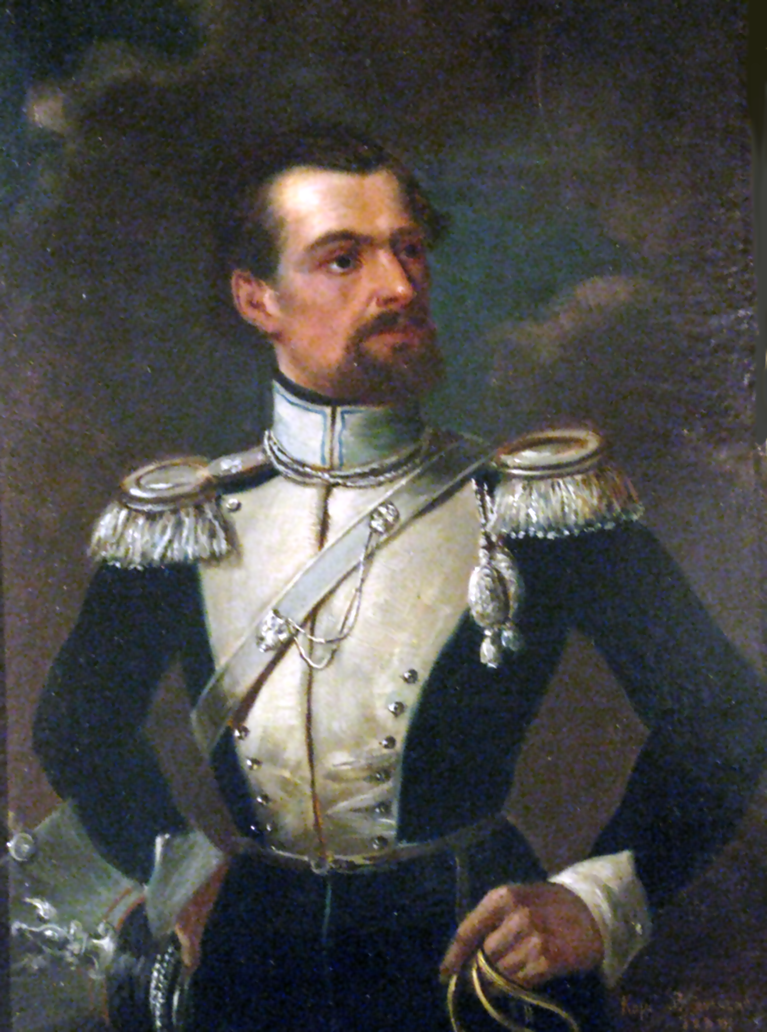 Felicjan Szybalski, lieutenant of the 2 Lancer Regiment of the Polish Legion in Hungary.